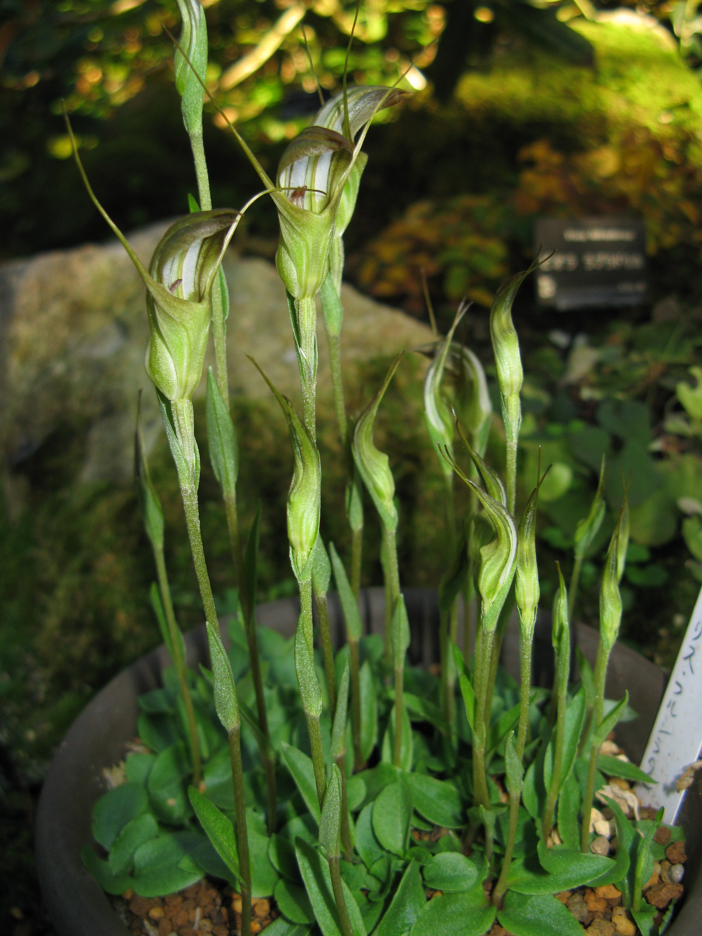 Pterostylis x furcillata Place:Osaka Prefectural Flower Garden,Osaka,Japan